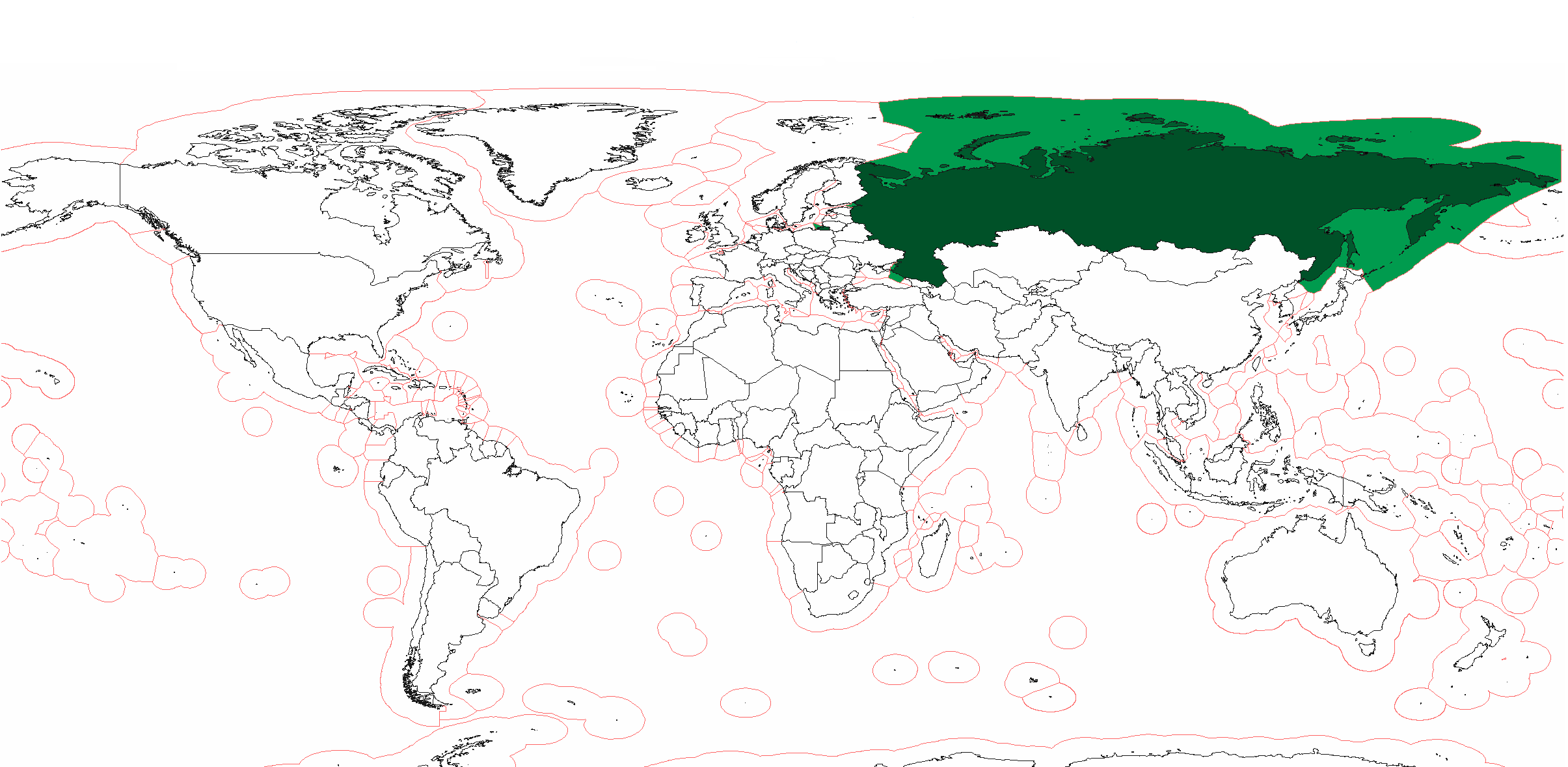 A colored map showing the exclusive economic zone of Russia.